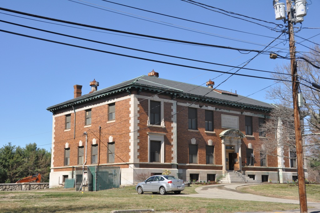 The Clapp Memorial Building, part of the Central Square Historic District of Weymouth, Massachusetts.